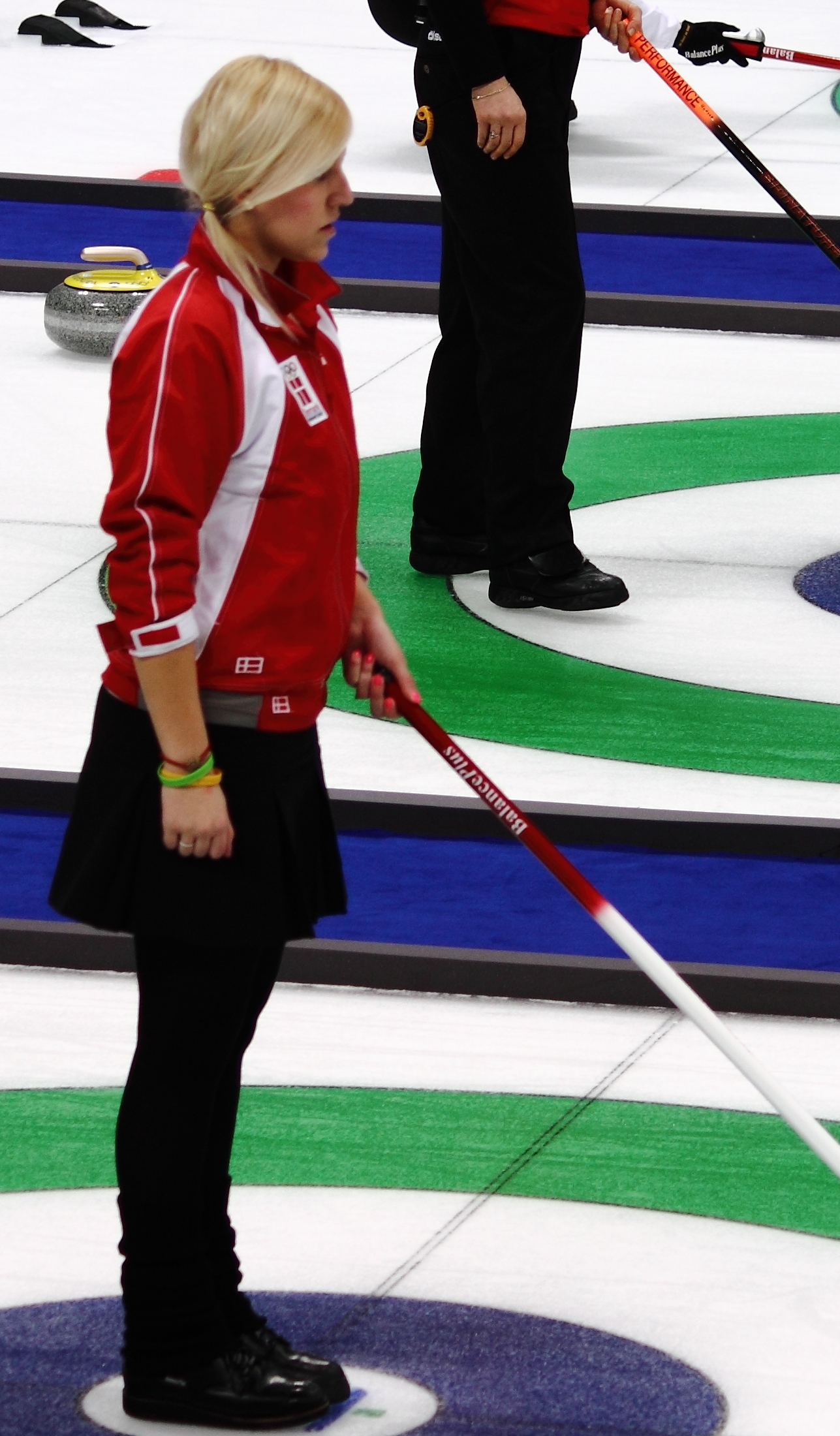 2010 Vancouver Olympic Games - Women's Curling - Preliminary from Vancouver Olympic Centre